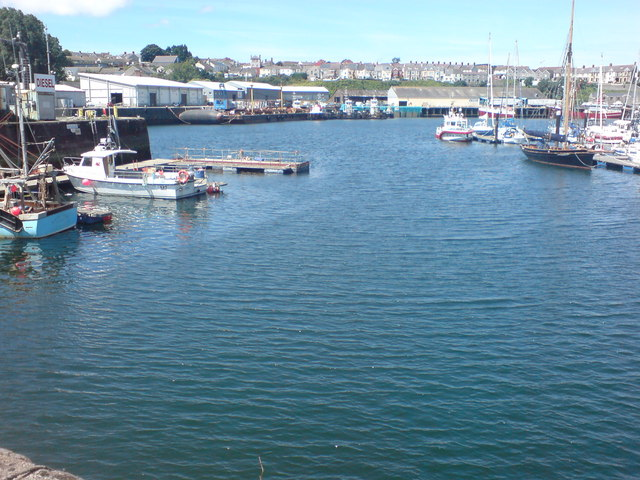 This IS Milford Docks The upmarket marina may be out of camera shot but this is the working side. Our fishing industry hanging on by a thread.